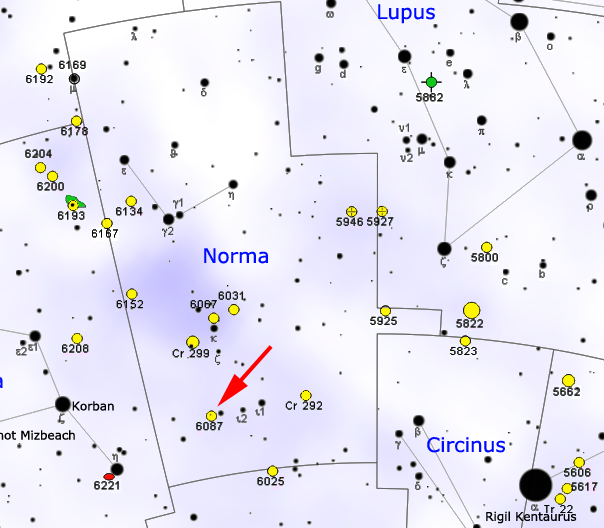 Map of NGC 6087